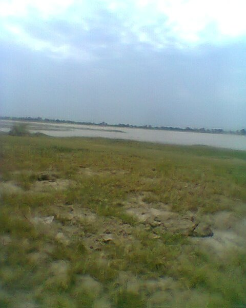 River Side